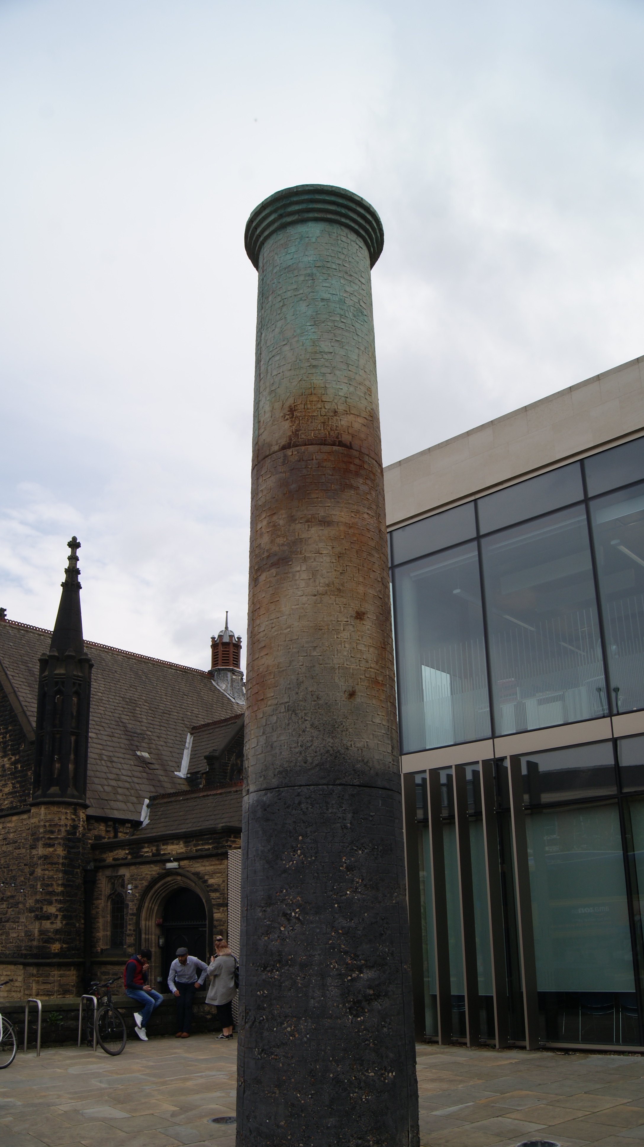 The Laidlaw Library, Woodhouse Lane, Leeds, West Yorkshire. This is a new library at the University of Leeds. Taken on the afternoon of Friday the 25th of August 2017.